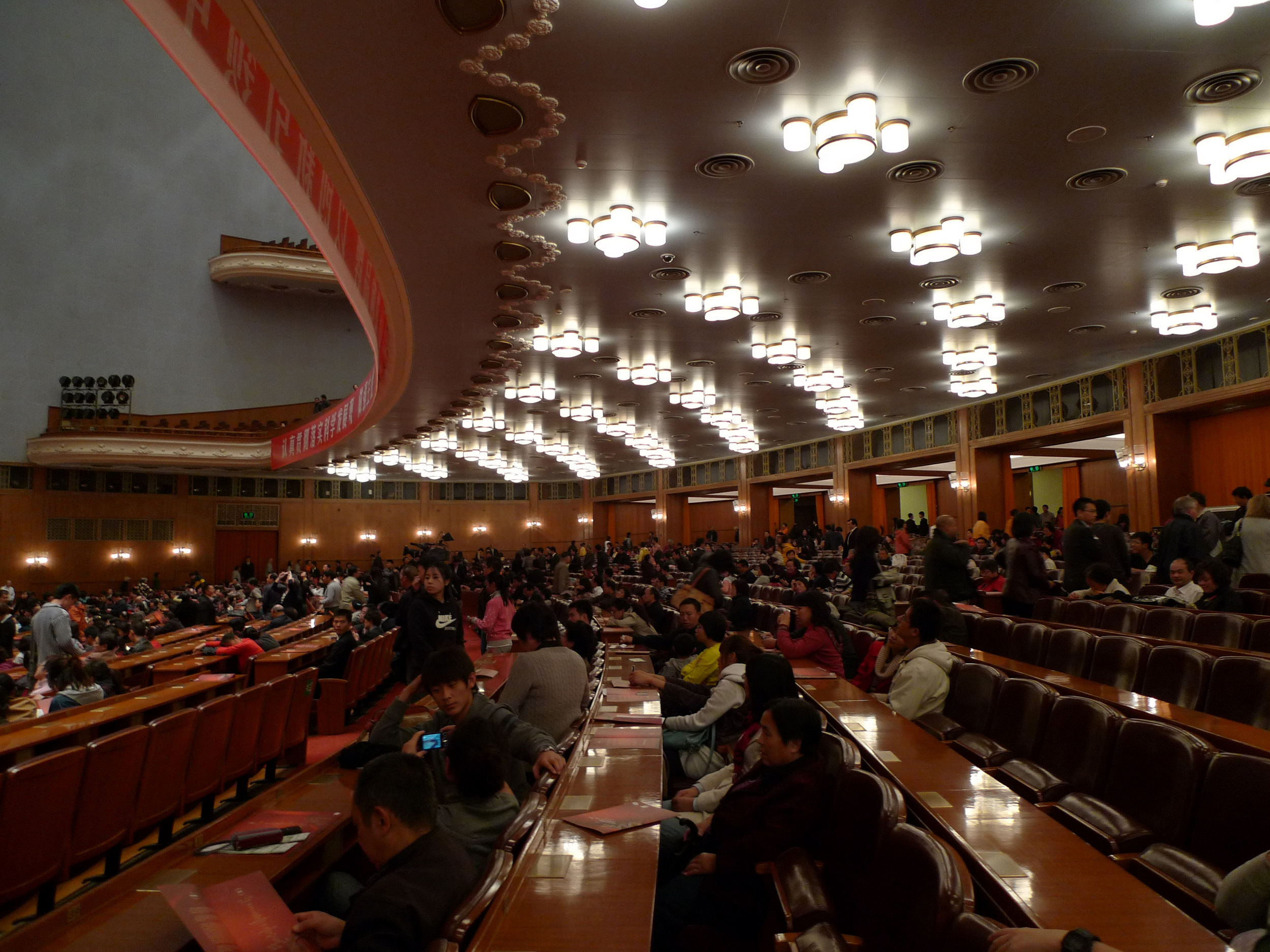 Assembly hall of the Great Hall of the People